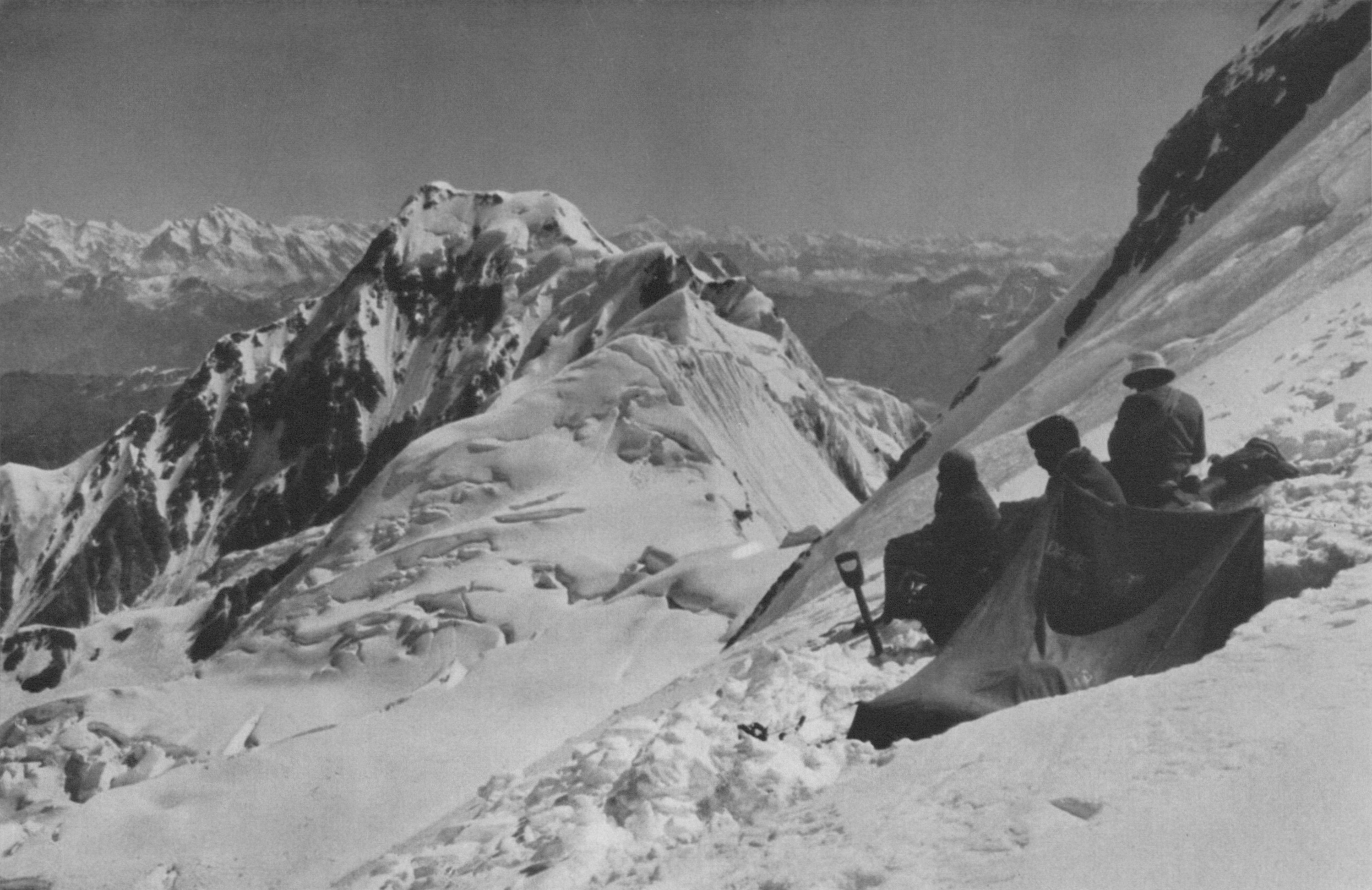 On the Rakhiot face of Nanga Parbat (c 6600m), view to the north: Chongra Peak in the foreground; in the distance: Malubiting and Haramosh on the left, Kanjut Sar in the centre of the picture (to the right of Chongra and directly above Chonra West).